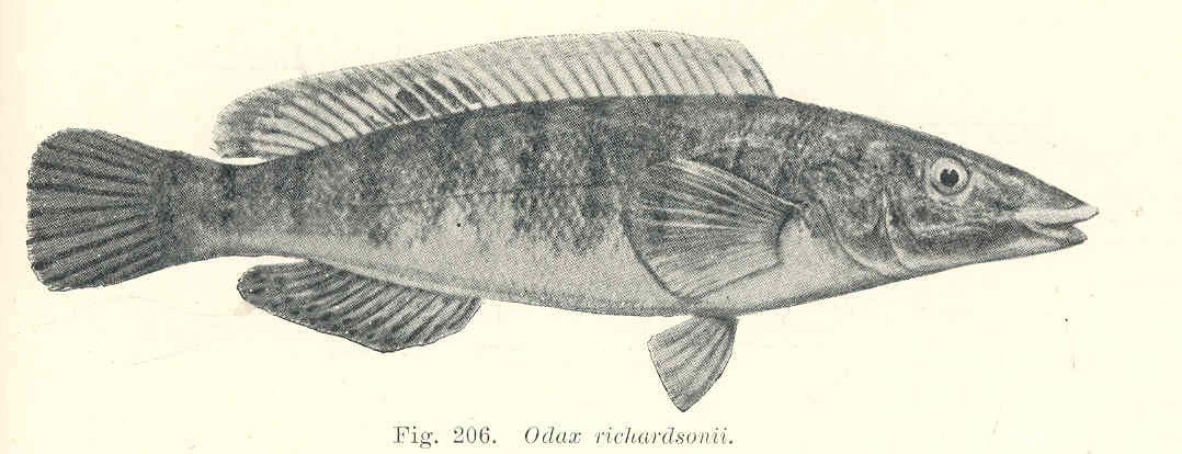 Odzx richardsonii Subject: Whiting (Fish), odax, Odacidae Tag: Fish